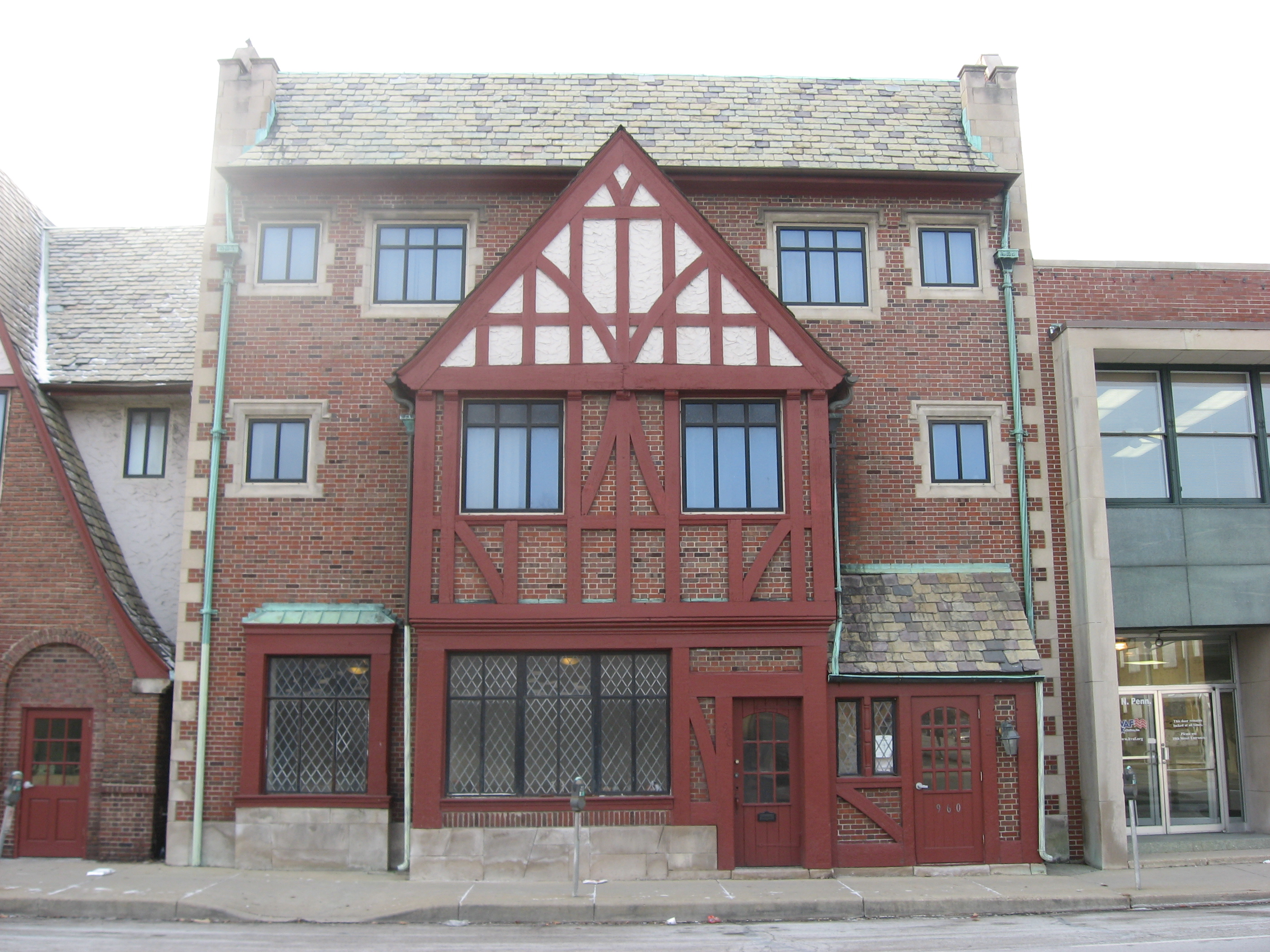 Front of the Manchester Apartments, located at 960-962 N. Pennsylvania Street in Indianapolis, Indiana, United States. Built in 1929, it is listed on the National Register of Historic Places.